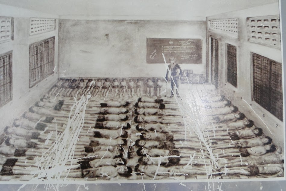 museum fash gen